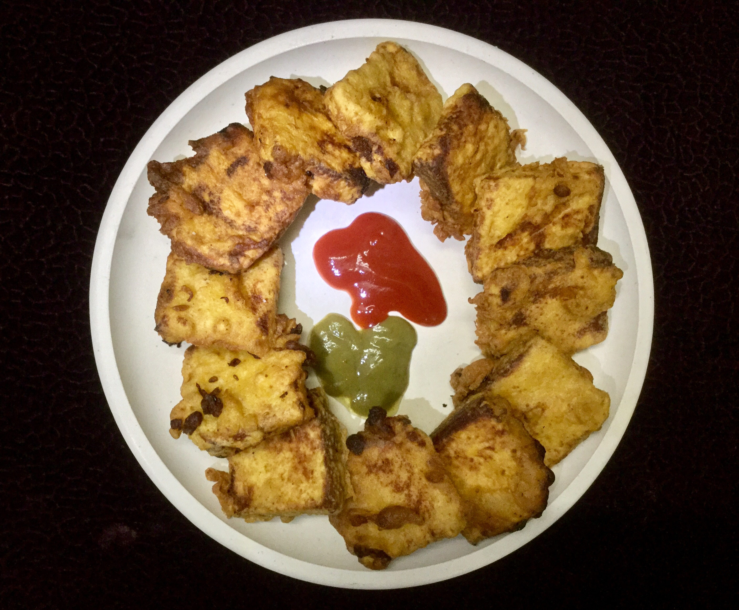 An Indian snack made by deep frying bread slices coated with gram flour.